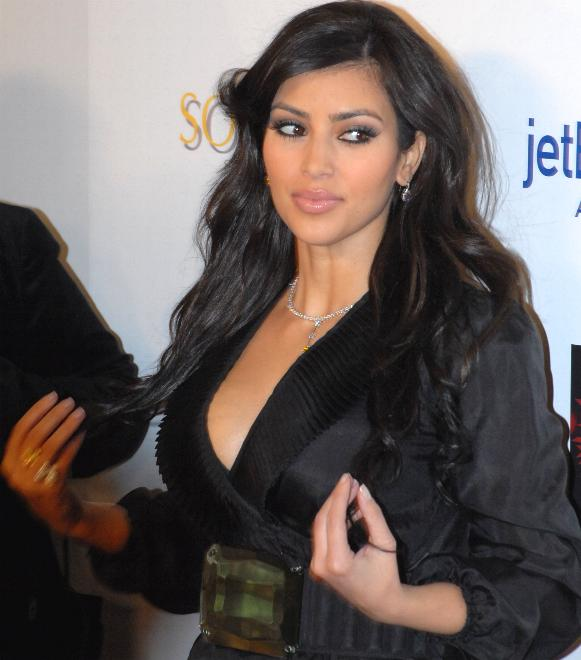 Kim Kardashian at the Seventh Annual Hollywood Life Magazine Awards.